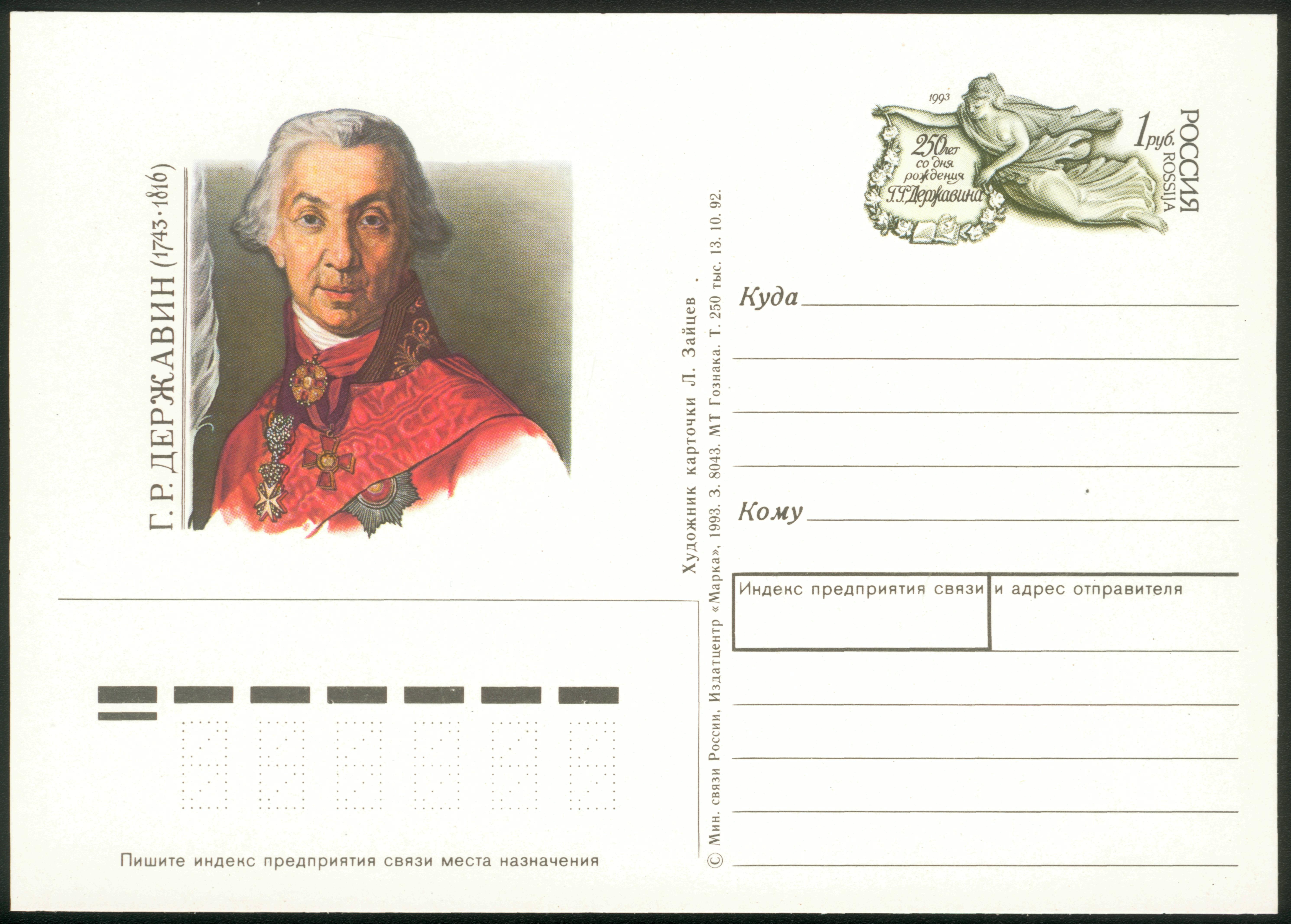 Derszhavin Russian original postcard 1993